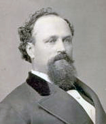 Horace F. Page, US Representative from California